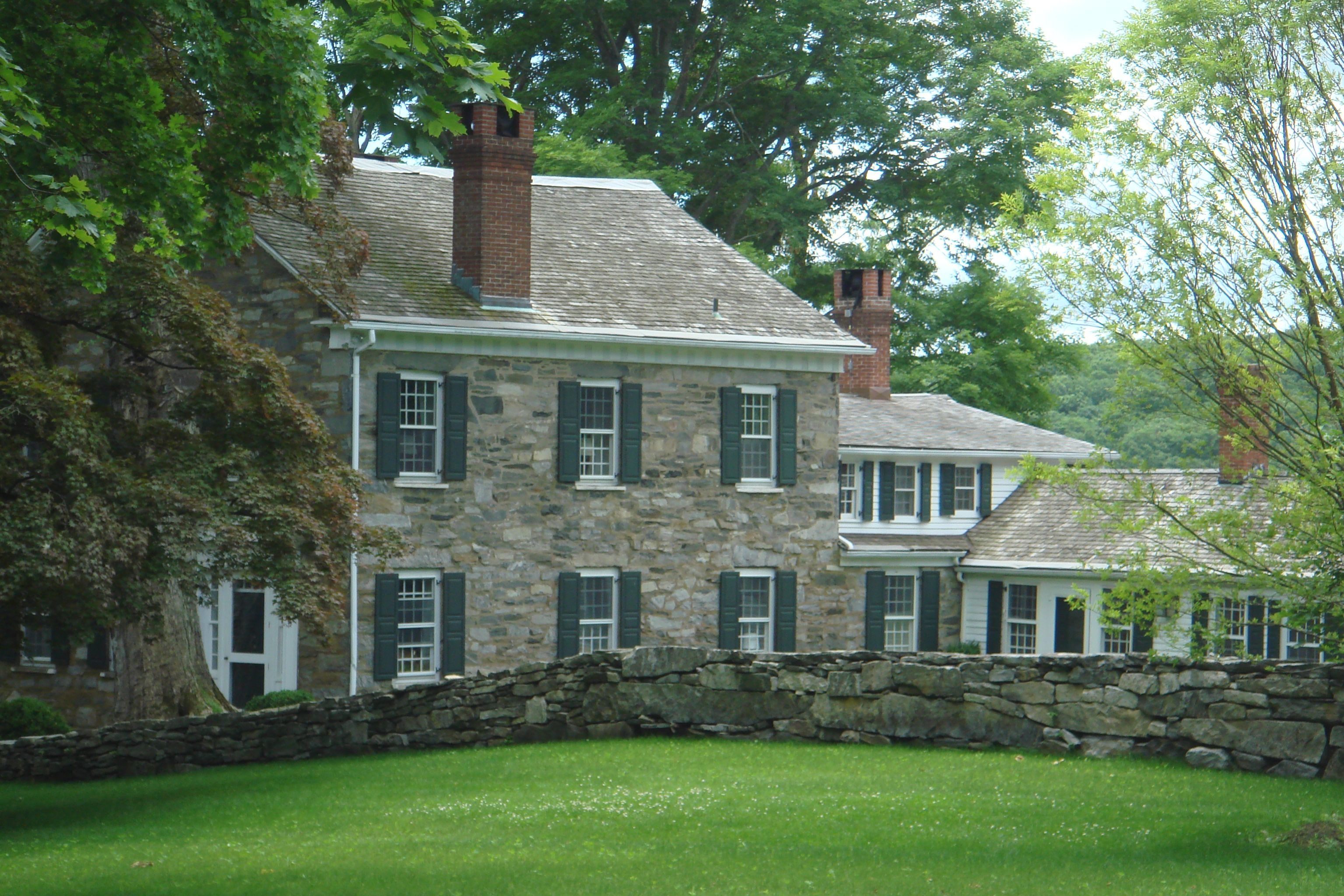 Former residence of Bill Blass, as seen from New Preston Hill Road, looking south